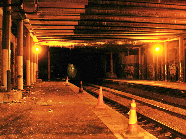 View into the tunnel at Clifton Down railway station, heading towards Redland.